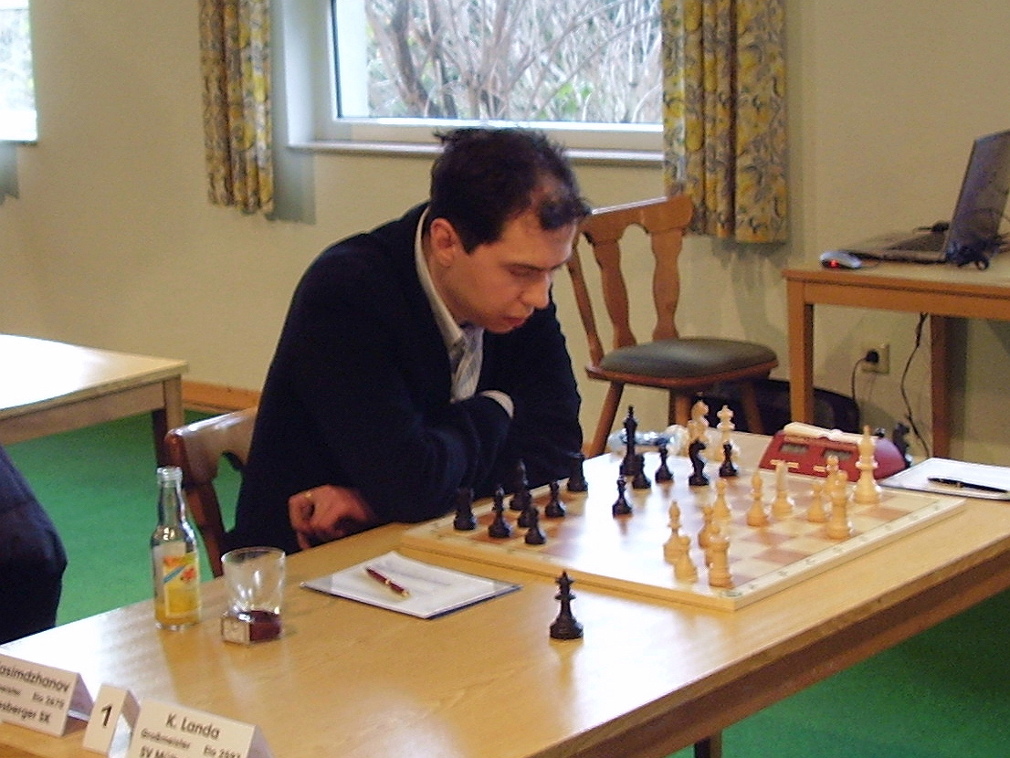 Rustam Kasimdzhanov, February 2006. Own photo